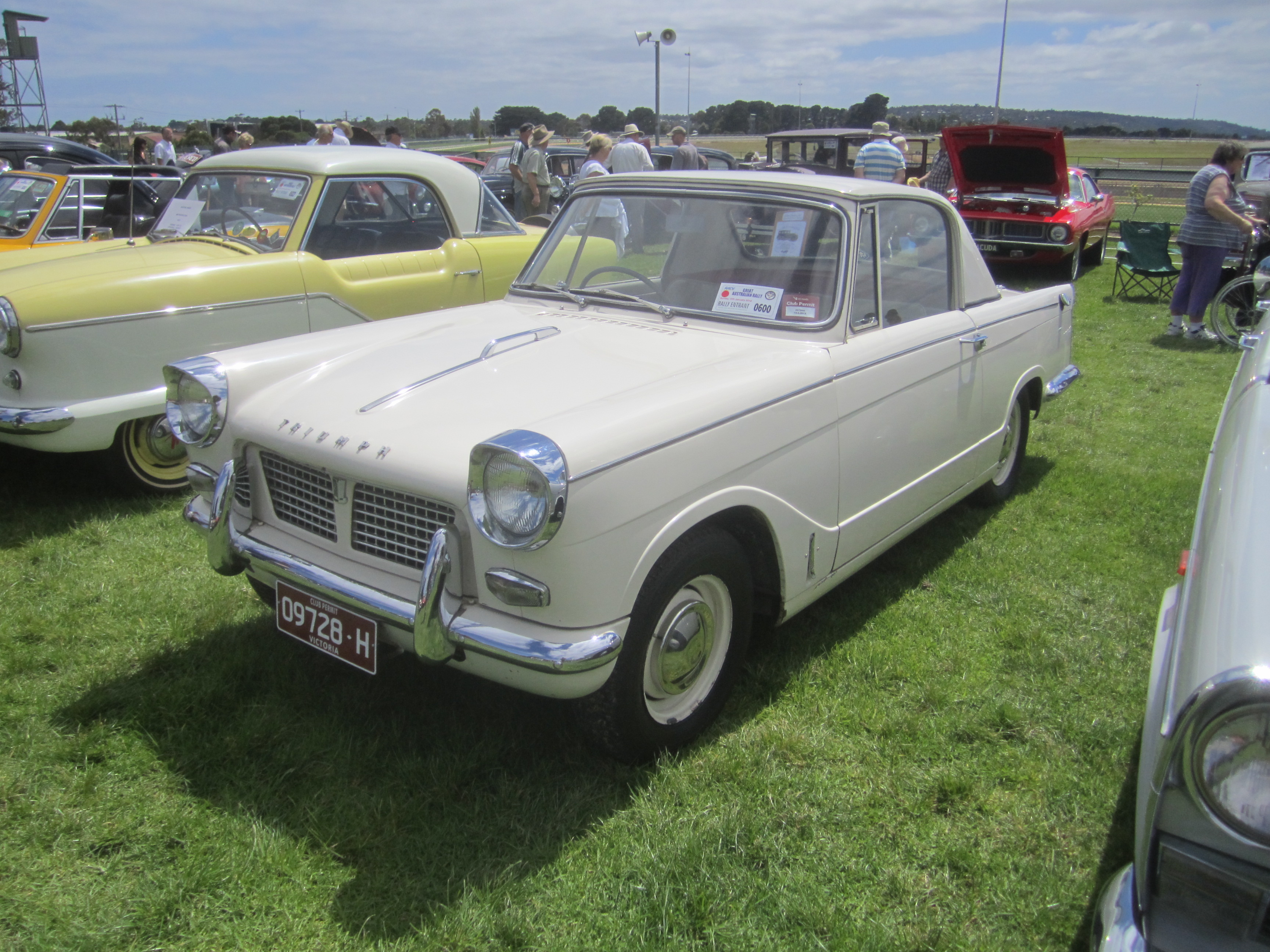 The Herald was made from 1959-71. Originally available as Coupe, 2 dr Sedan, Estate and Convertible with 848cc OHV 4cyl engine. 1961; now Herald 1200 with 1147cc and white rubber bumpers. 1962; Courier Van. 1963; The sportier 12/50 with sliding fabric sunroof, disc brakes 1967; 13/60 now 1296cc, update got a restyled bonnet similar to the Vitesse, but with only 2 headlights. The Herald was built in Australia by AMI from 1959-66, and was also built and sold in that country as the Triumph 12/50, with the Triumph Vitesse 4 headlight front.